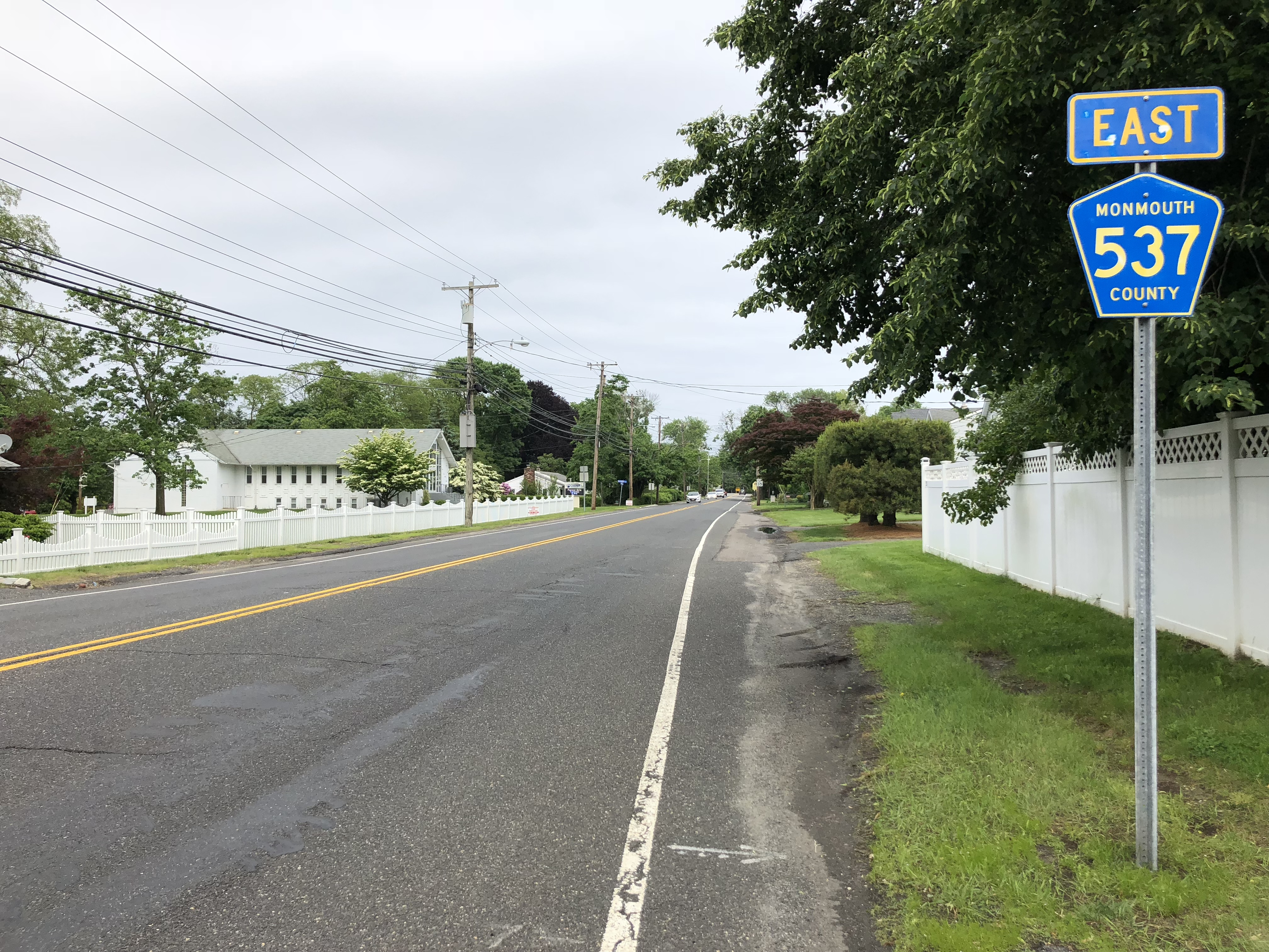 View east along Monmouth County Route 537 (Eatontown Boulevard) at New Jersey State Route 71 (Monmouth Road) in Oceanport, Monmouth County, New Jersey